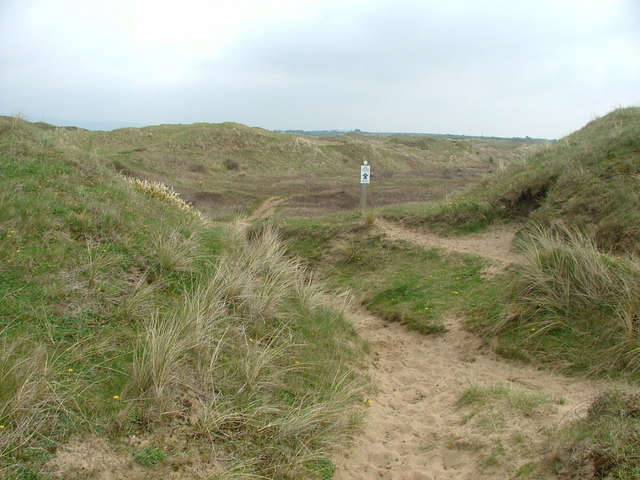 Kenfig Burrows. these Sand dunes cover most of six grid squares but this area is one of the last remnants of a large sand dune system that once stretched along the coast from the river Ogmore to the Gower peninsula.